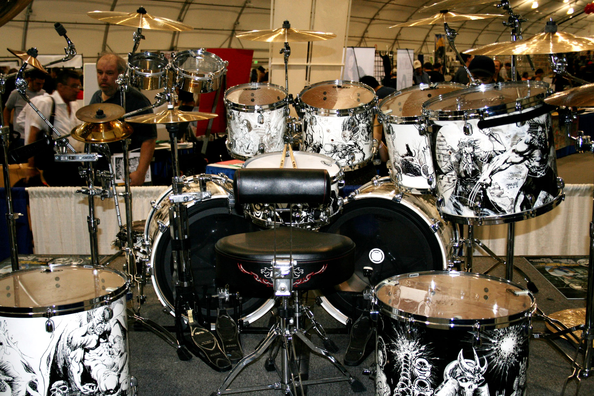 Shots from Super-Con 2007. Not the best pics, since I was f'ing with my camera most of the time. John Dolmayan, drummer for System of a Down, has the coolest drum kit I've seen in a long time. Original art by comic legends such as Art Adams, Jim Lee, Tim Vigil, Kevin Eastman (!) and a ton more. John was around, but I didn't meet him.